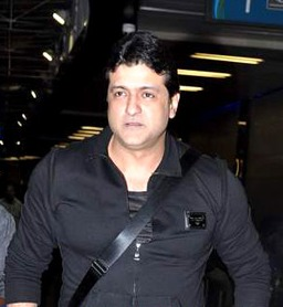 Armaan Kohli snapped at the International Airport